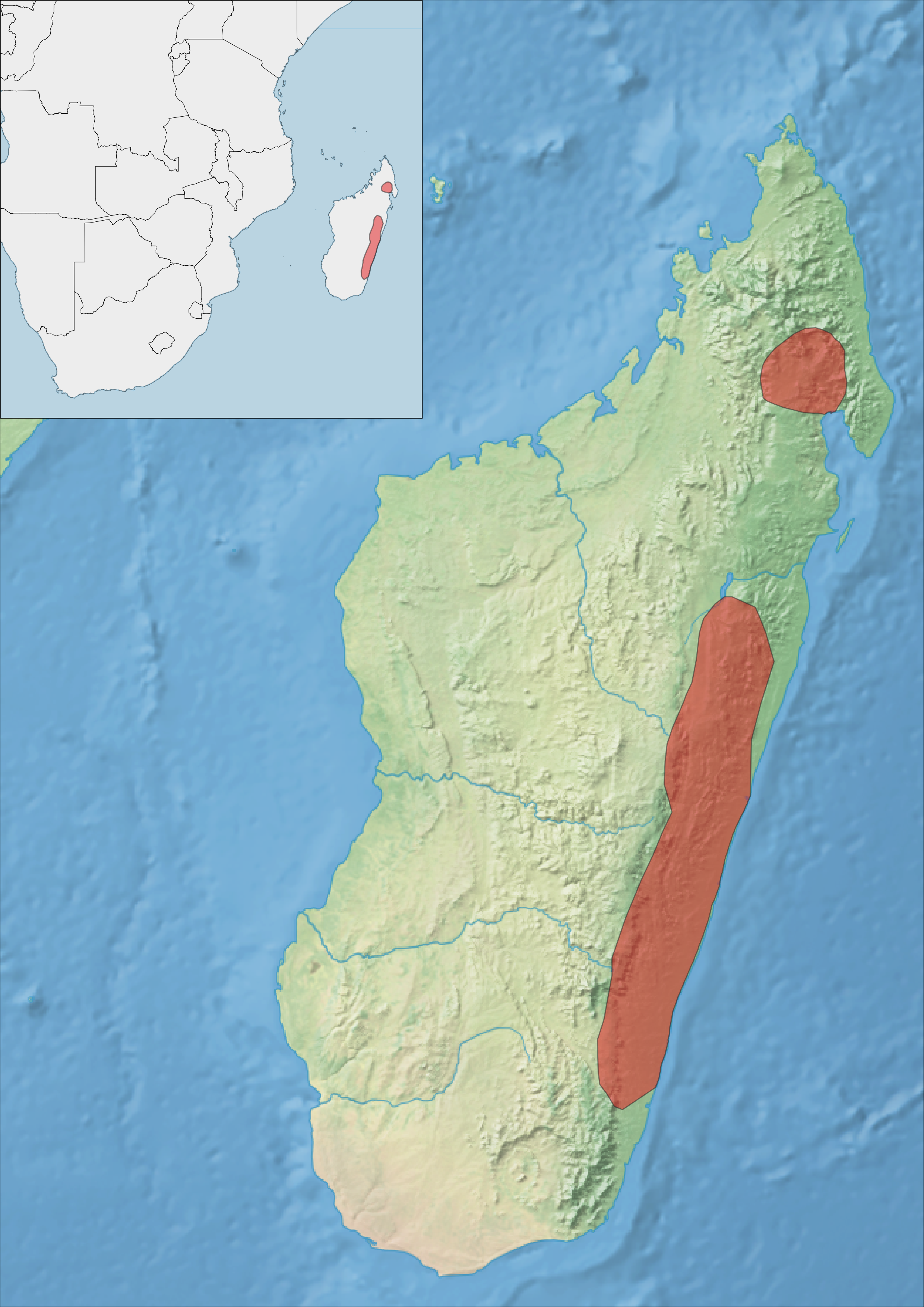 Geographic distribution of Chaerephon atsinanana